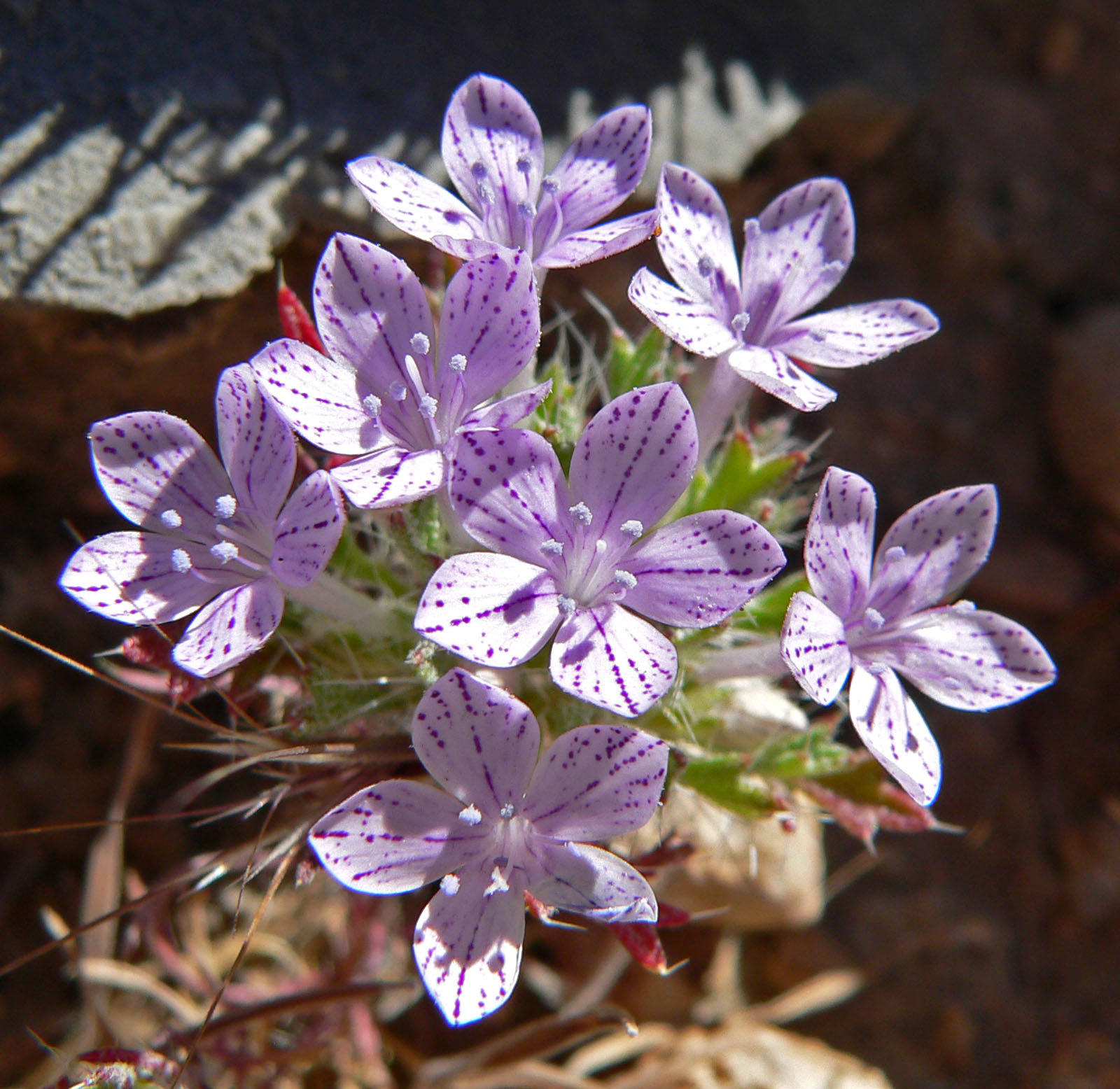 Photo of Langloisia_setosissima in Red Rock Canyon, Nevada